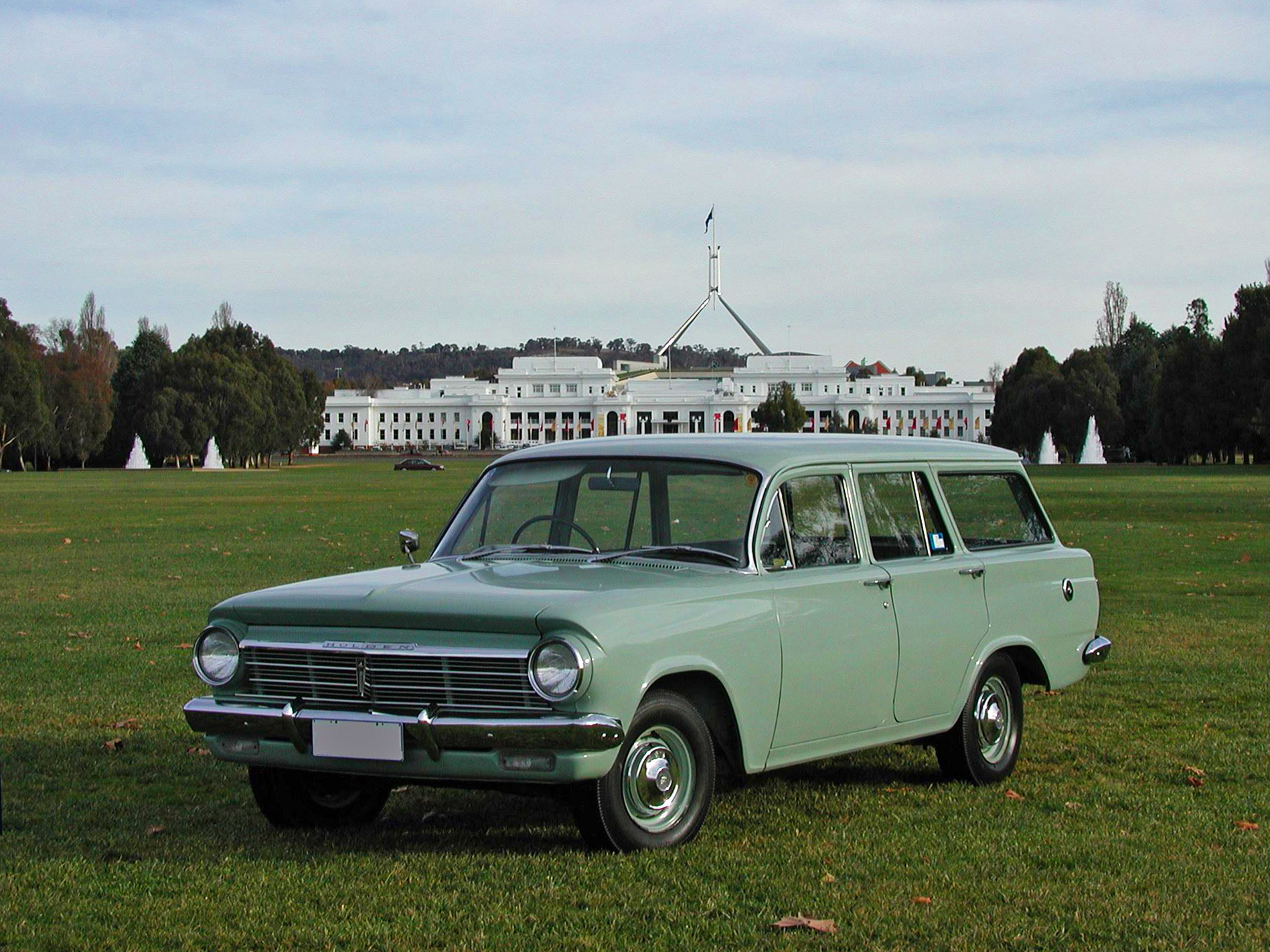 1963–1965 Holden EH Standard (179 cu in engine, manual transmission) station sedan, photographed outside Old Parliament House, Canberra, Australian Capital Territory, Australia.